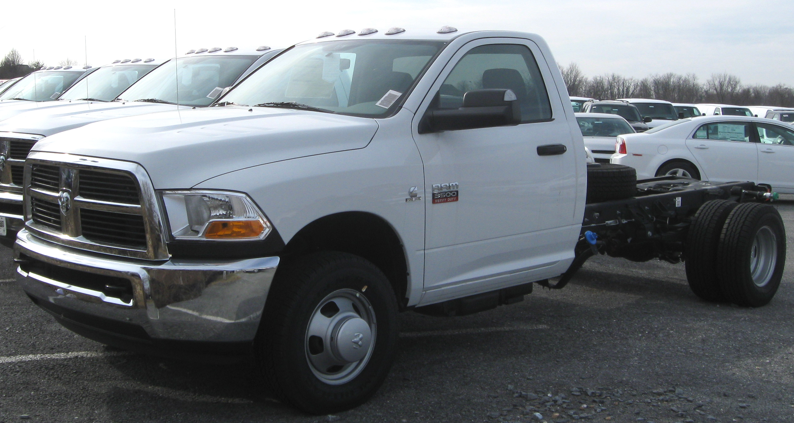 2011 Ram 3500 photographed in Clarksville, Maryland, USA.